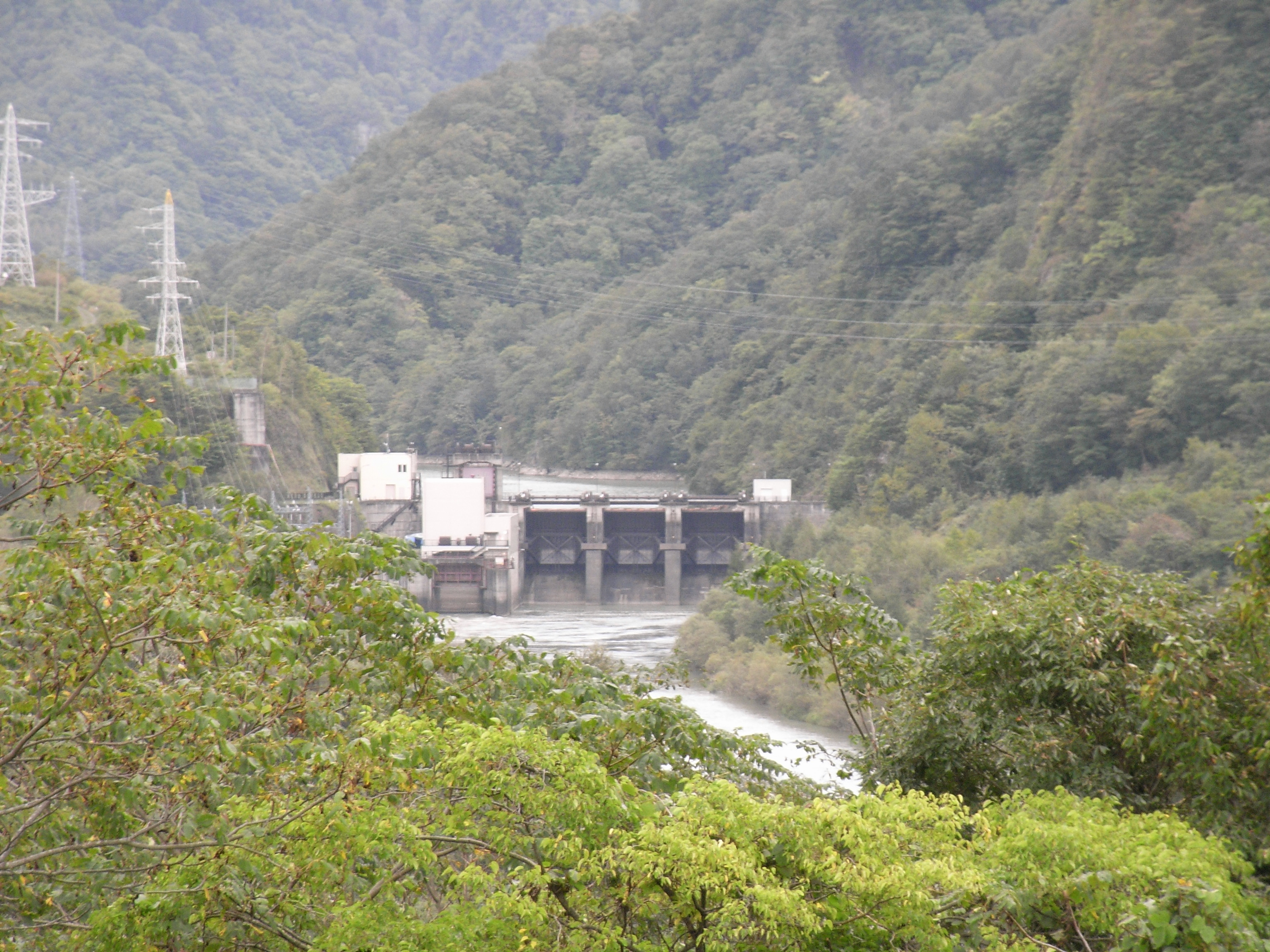 Futagawa Dam(Shizunaigawa River/Hokkaido/Japan)